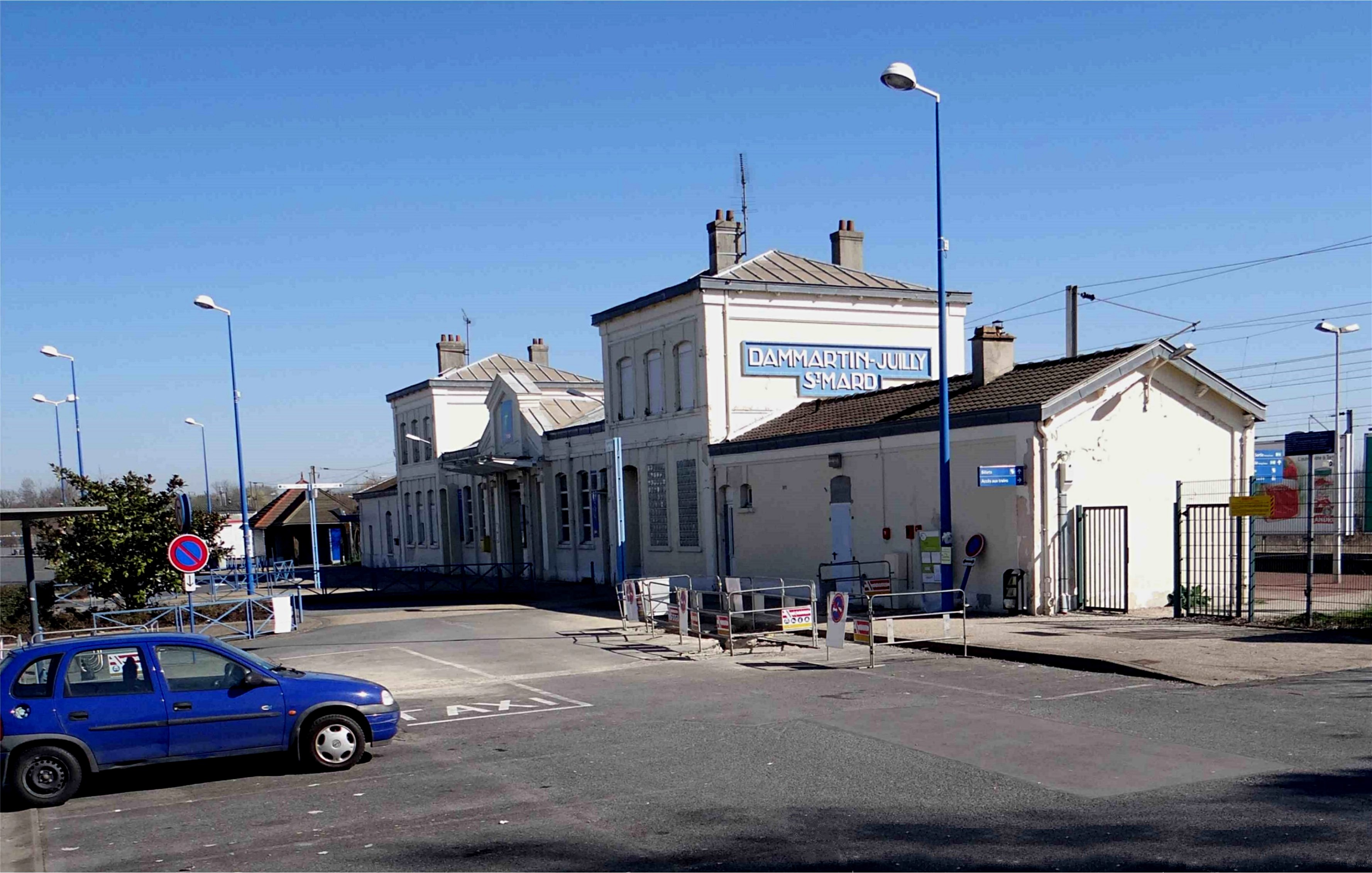 The train station, Saint-Mard, Seine-et-Marne, France.